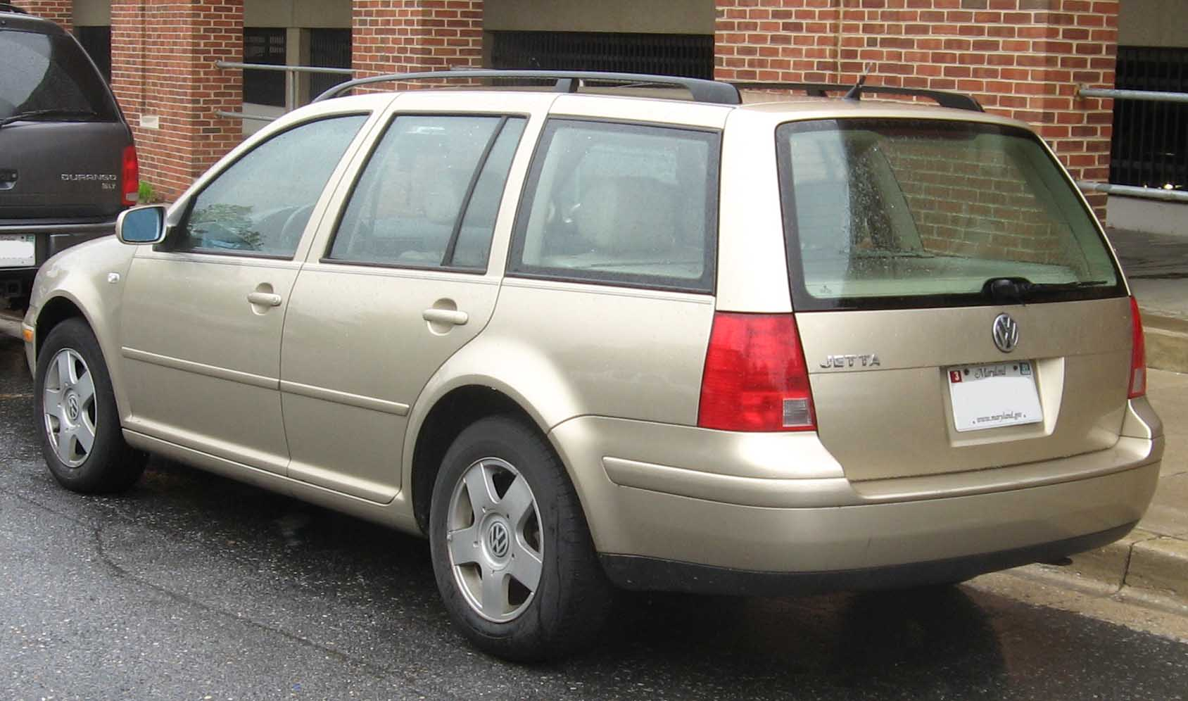 2002-2006 Volkswagen Jetta photographed in College Park, Maryland, USA.